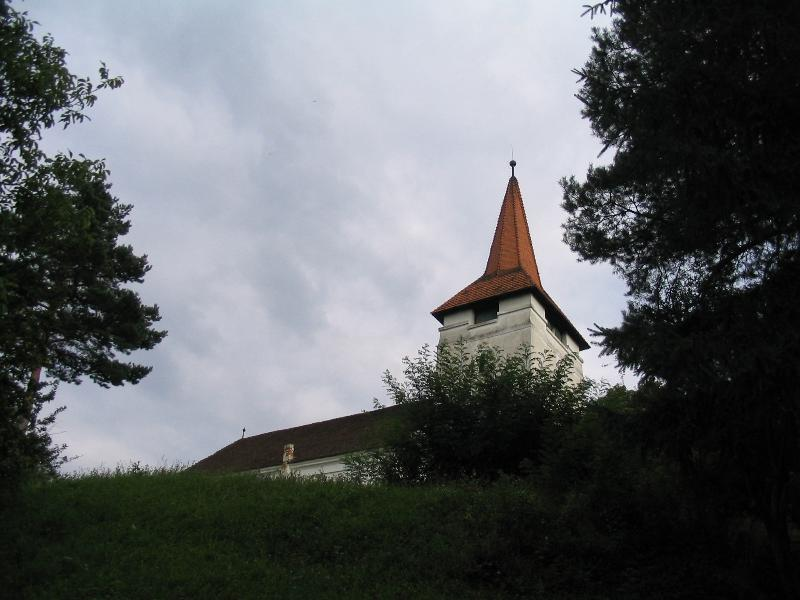 Church of Bicfalău, Ozun